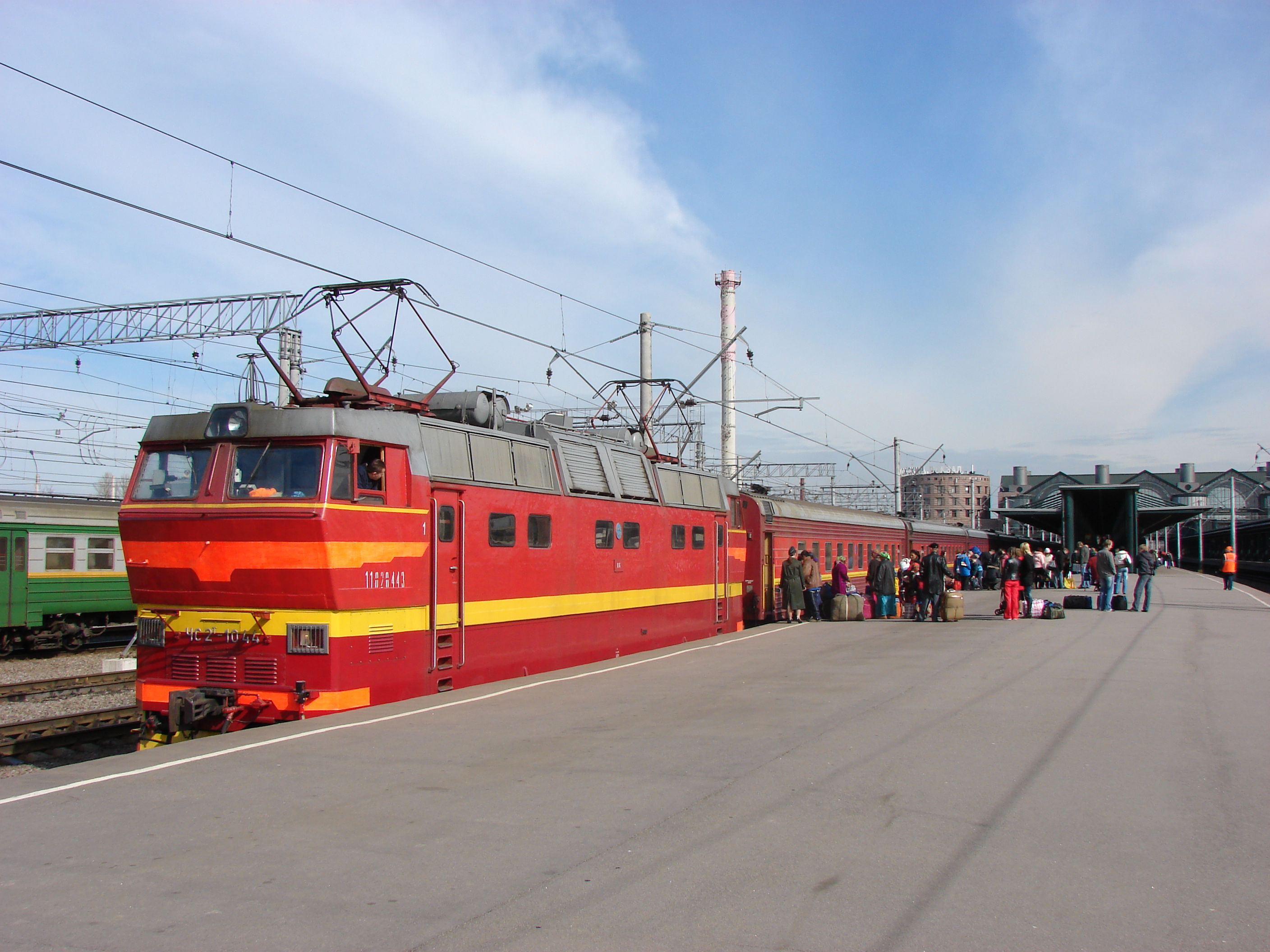 Electric locomotive Chs2T on Ladozhsky Station in Saint-Petersburg, Russia